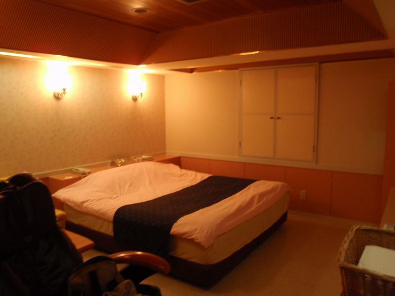 Guest room in Japanese Love hotel.